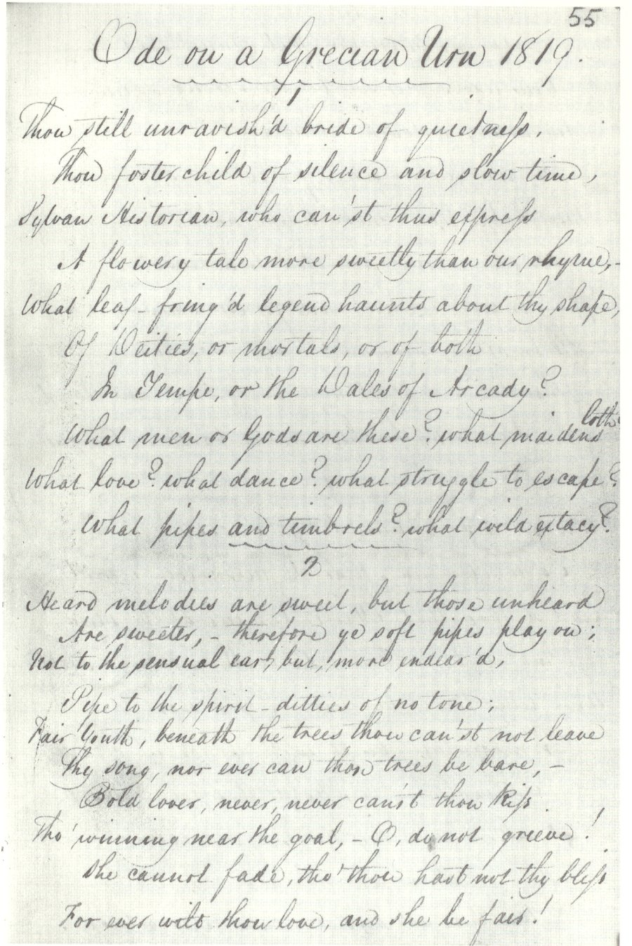 First surviving draft of Ode on a Grecian Urn.